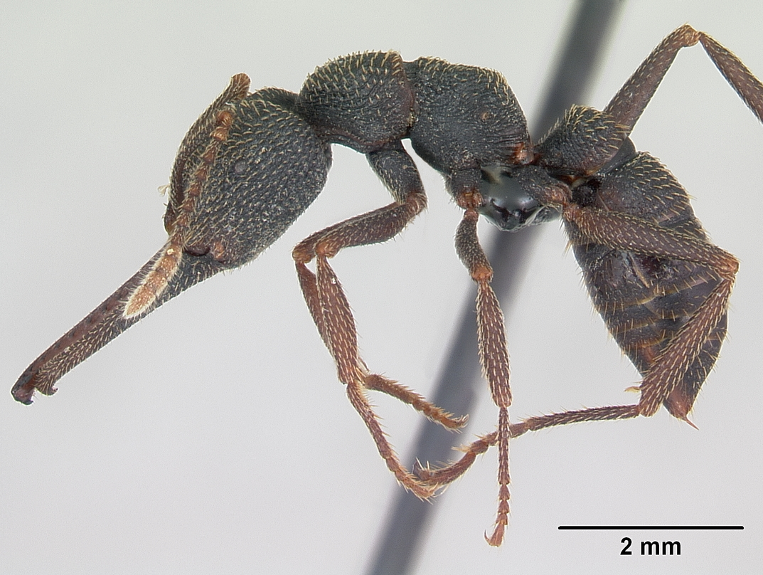 Profile view of ant Mystrium mysticum specimen casent0076622.